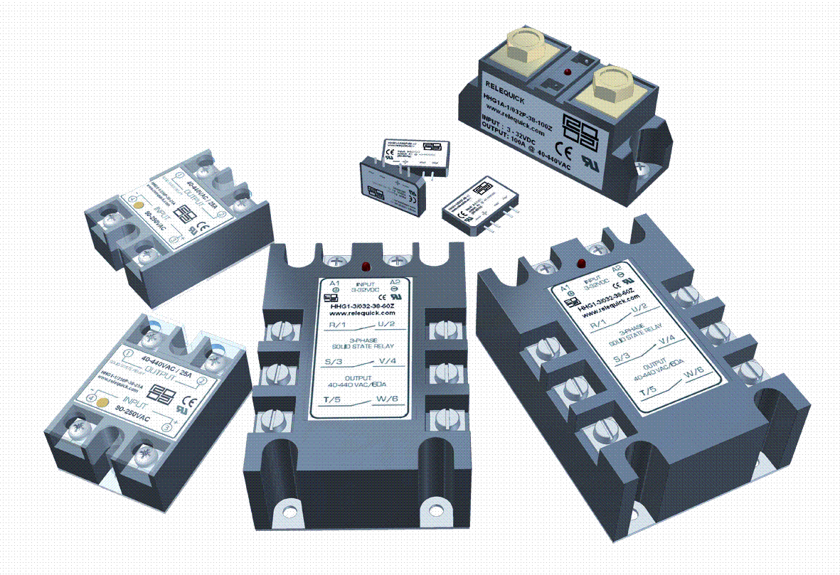 This is a example of Solid State Relays